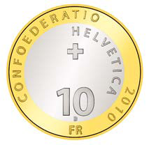 Swiss Commemorative Coin 2010 CHF 10 reverse